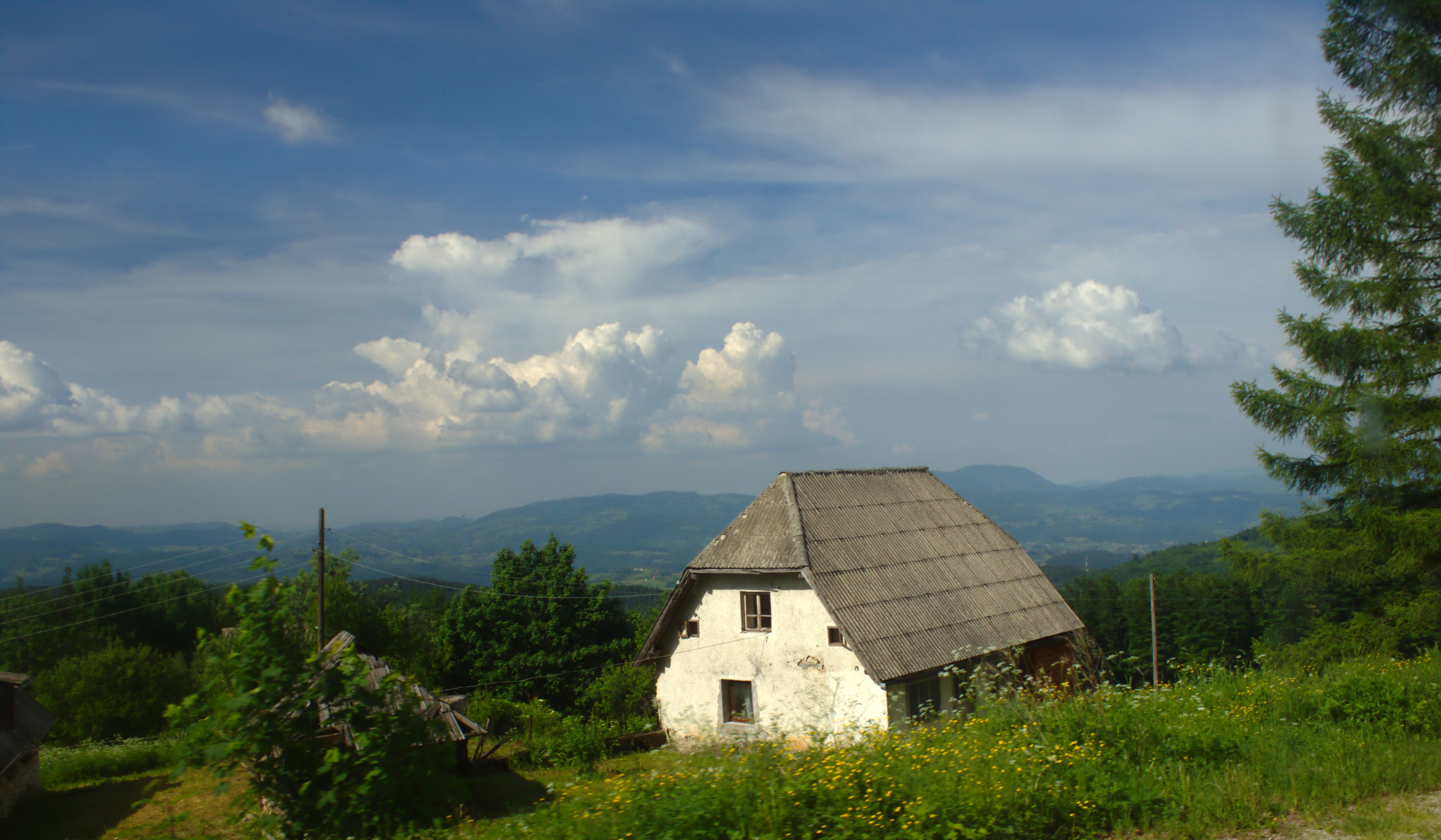 Countryside in Romanija hills in Bosnia and Herzegovina, this shot is taken from a road beteween Vlasenica and Sarajevo